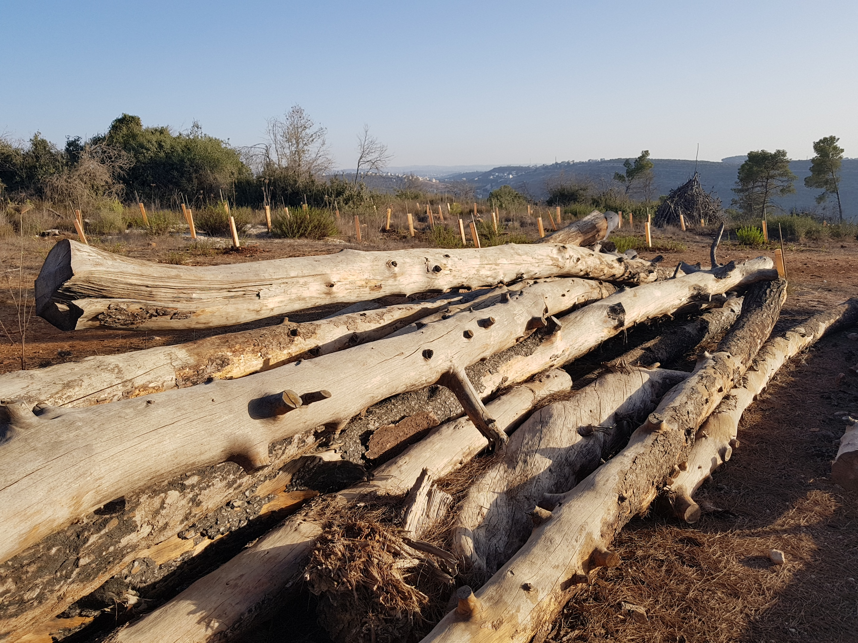 Neve Tsof Forest, new tree seedlings instead of the burnt trees